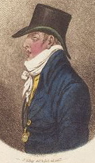 Ernest Augustus, Duke of Cumberland and later King of Hanover, hand-coloured etching